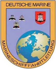 Internal coat of arms of the Bundeswehr (Armed Forces of the Federal Republic of Germany). → Remarks on naming and categorization scheme